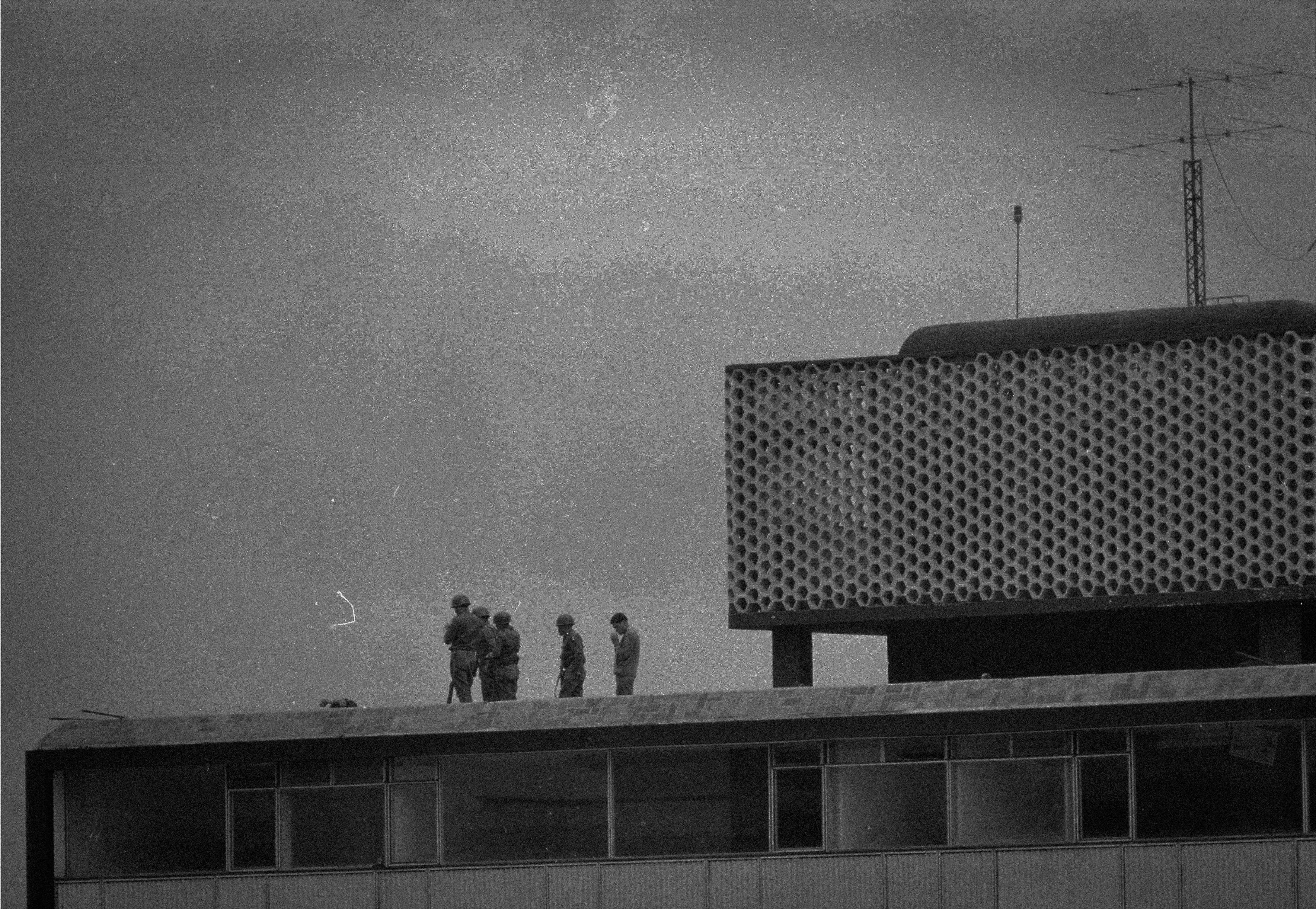 Images of Mexico City Student Movement, October 1968.